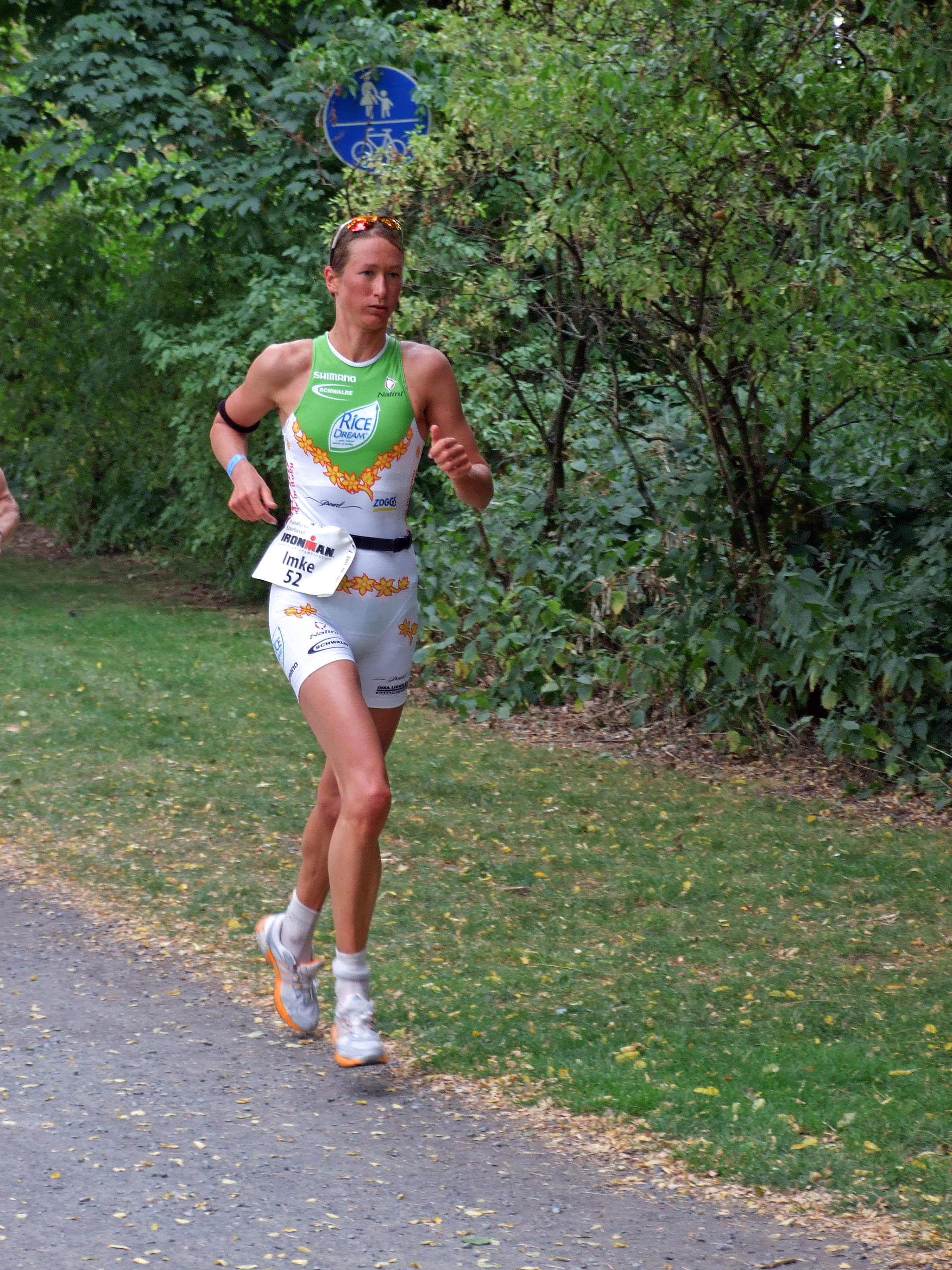 Imke Schiersch, Ironman Germany, Frankfurt 2008